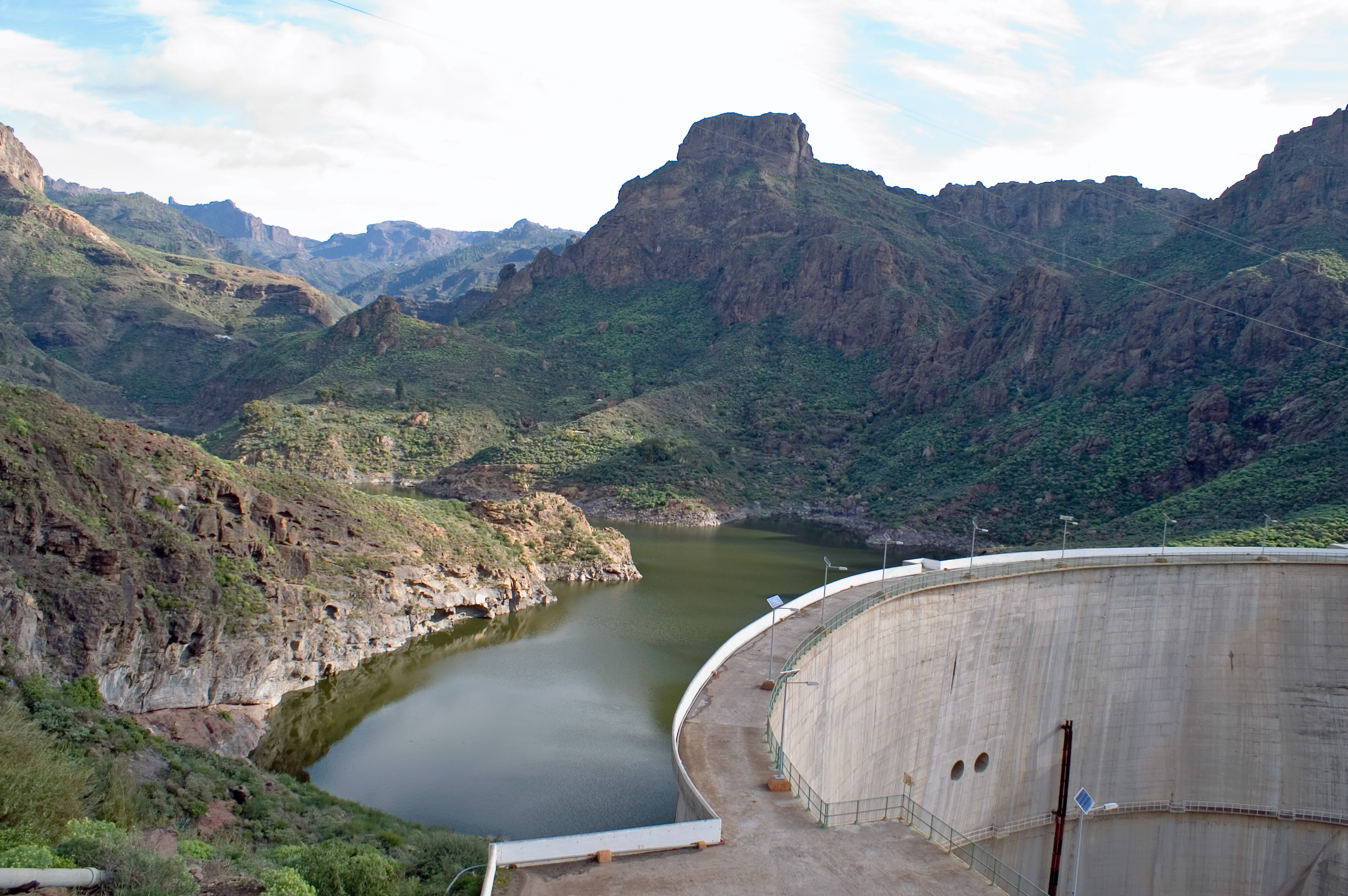 Part of the retaining wall of the dam of Soria (Mogán, Gran Canaria), the reservoir of greater capacity of the Canary Islands.